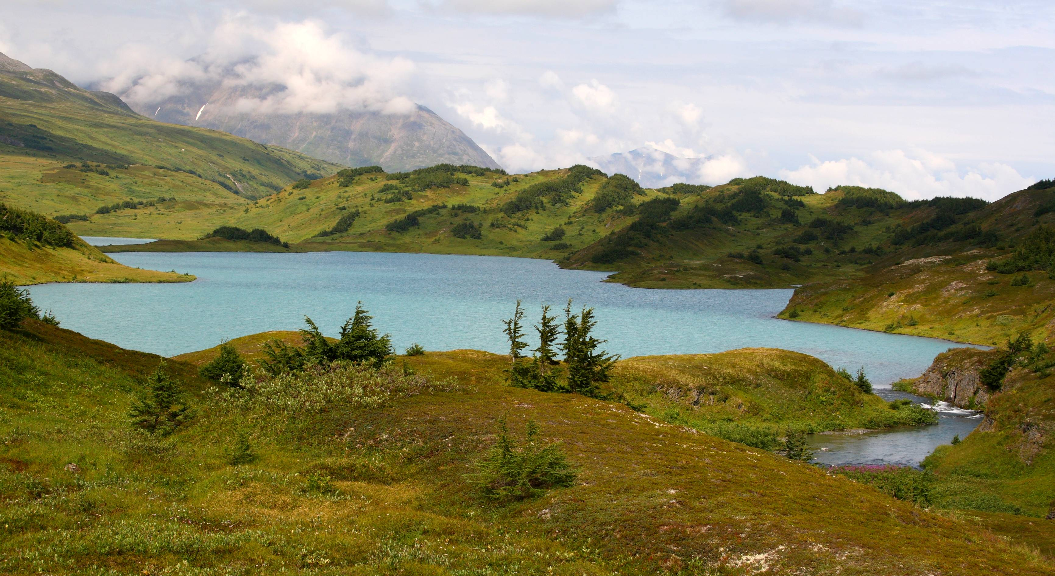 I took these photos in August 2009 during a hike to Lost Lake. This is an excellent but long trail outside of Seward, Alaska. We did a traverse, starting on the north side and exiting from the south side. It was still about 15 miles long with a bit of a climb on the way in. The day started off rainy and gray but got a lot better as we kept climbing. One of the major benefits was all the ripe blueberries on the trail - and they were so sweet - just like me!